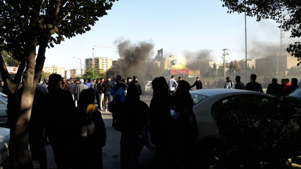 During the government-sanctioned intent shutdown in Iran in 2019